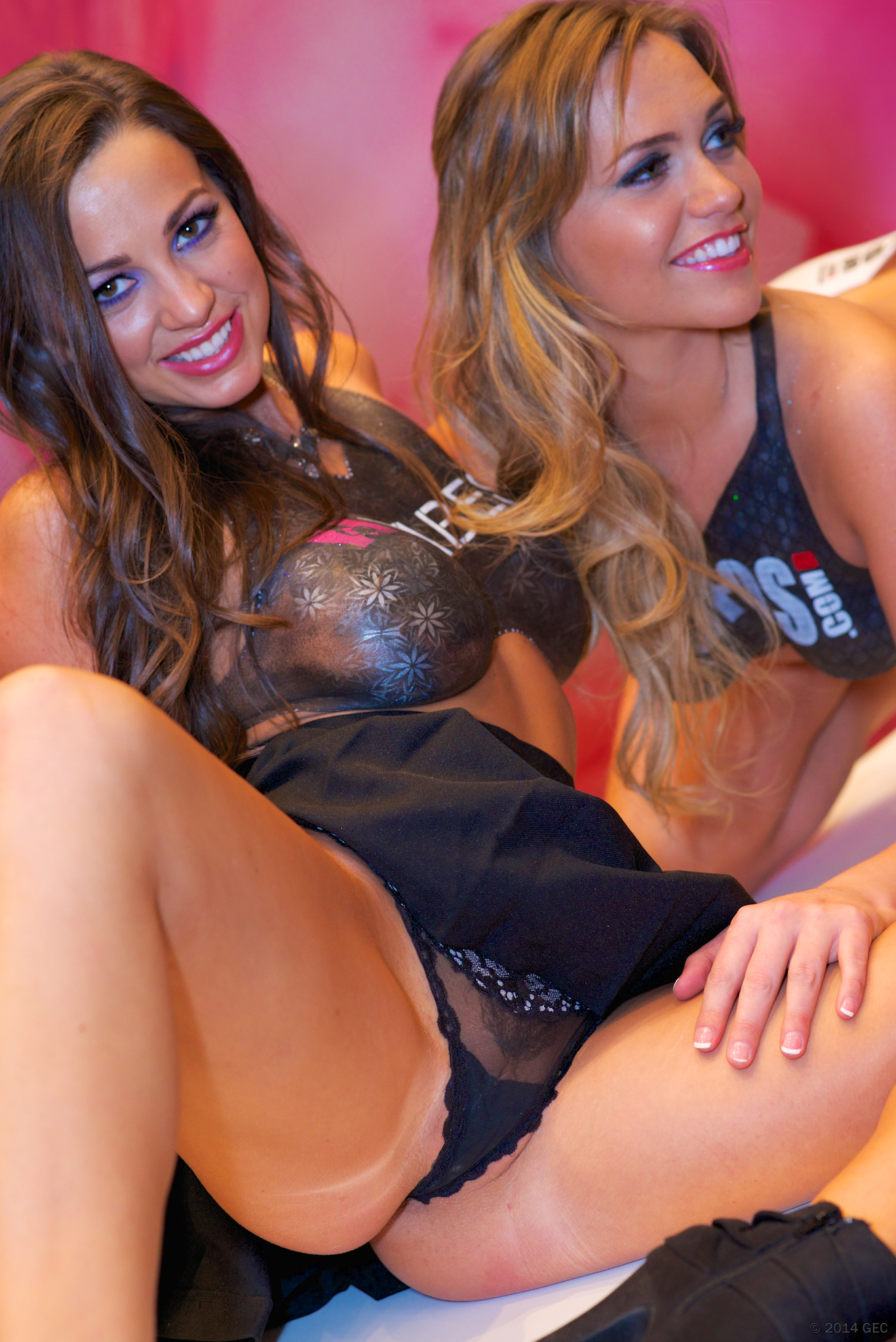 Abigail Mac & Mia Malkova at the 2014 AVN Adult Entertainment Expo AEE at Hard Rock Hotel - Las Vegas. 2014 © GEC. Video footage